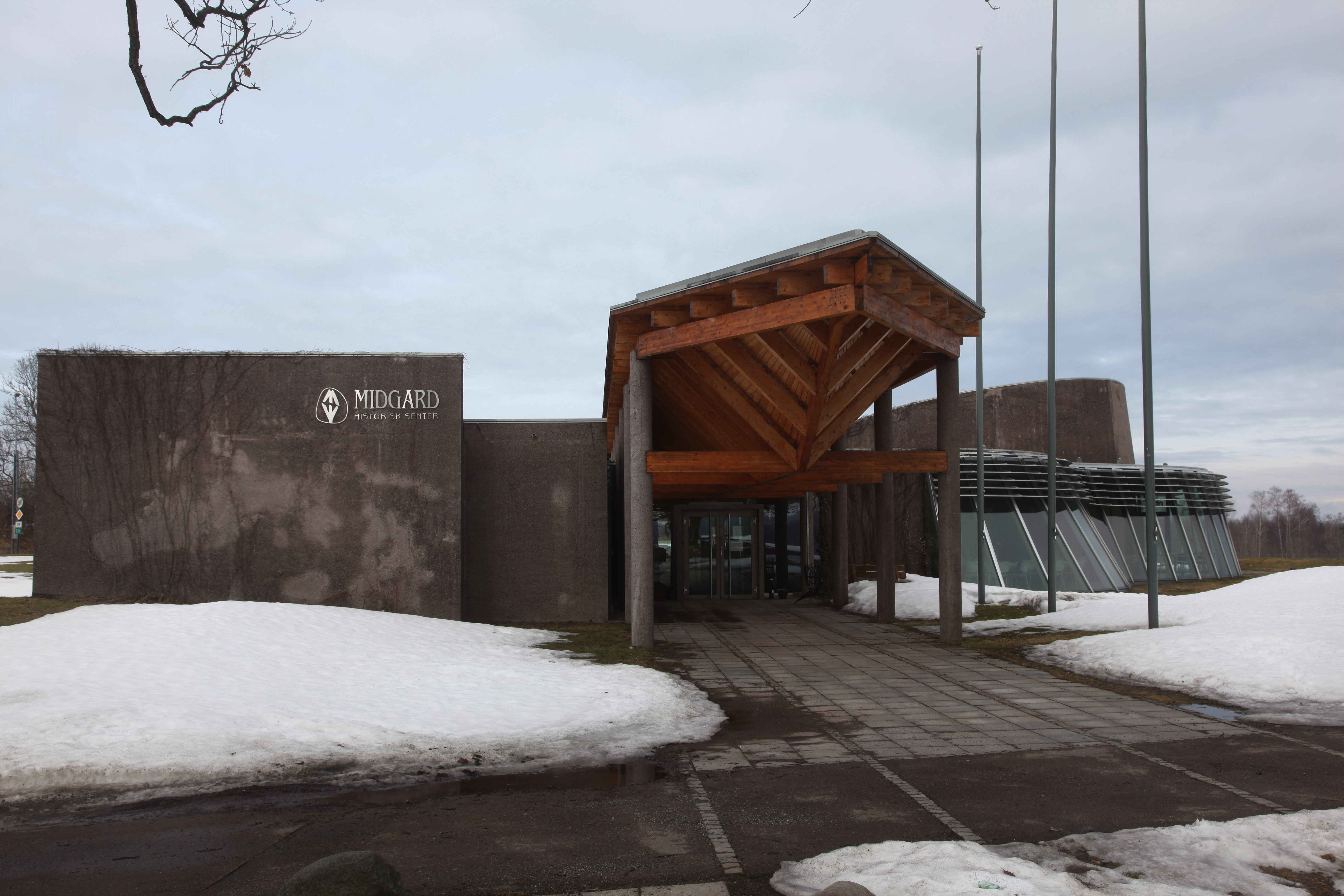 Midgard historisk senter at Borreparken in Horten, Vestfold, Norway